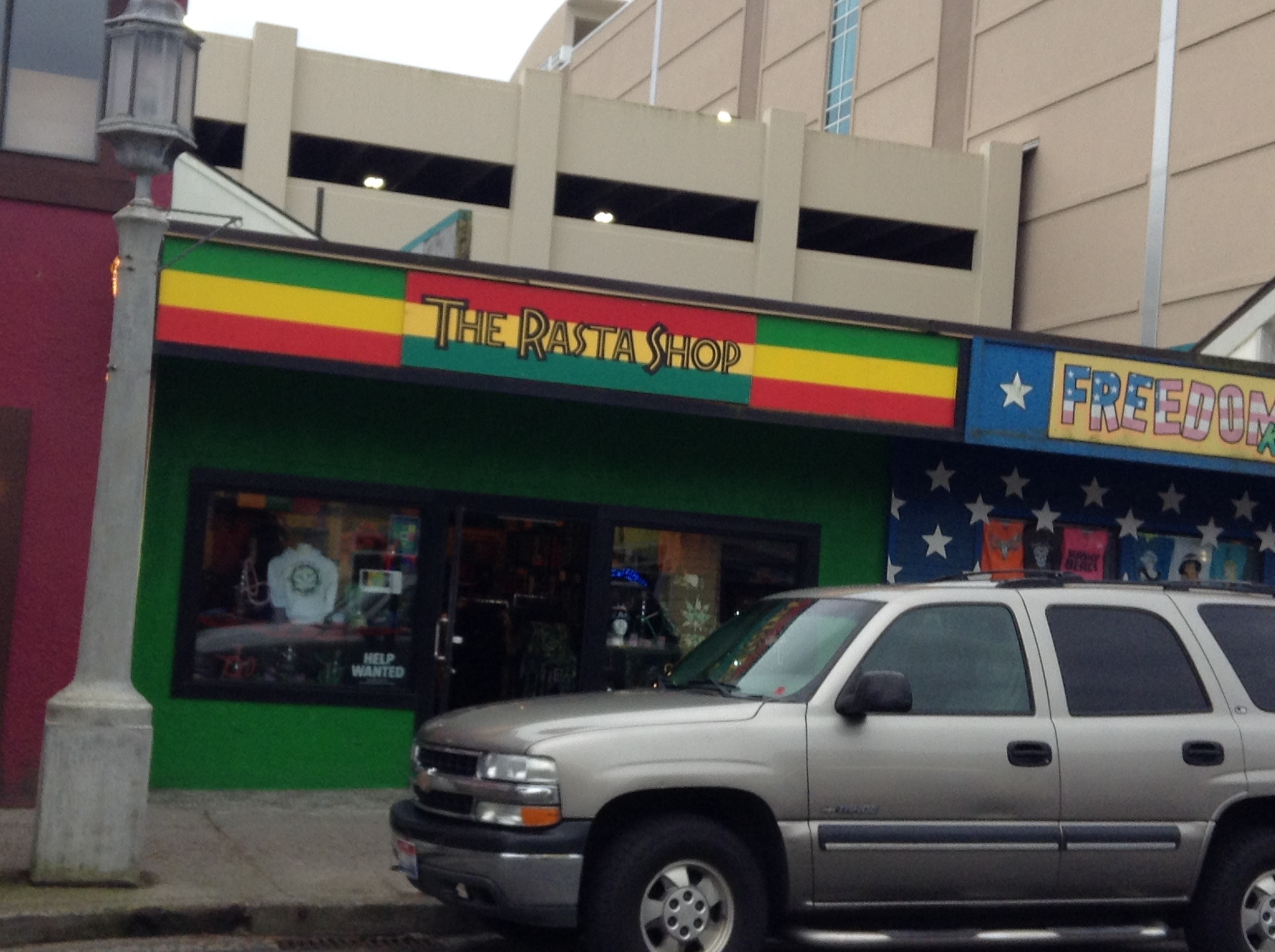 Rasta Shop in Seaside, Oregon